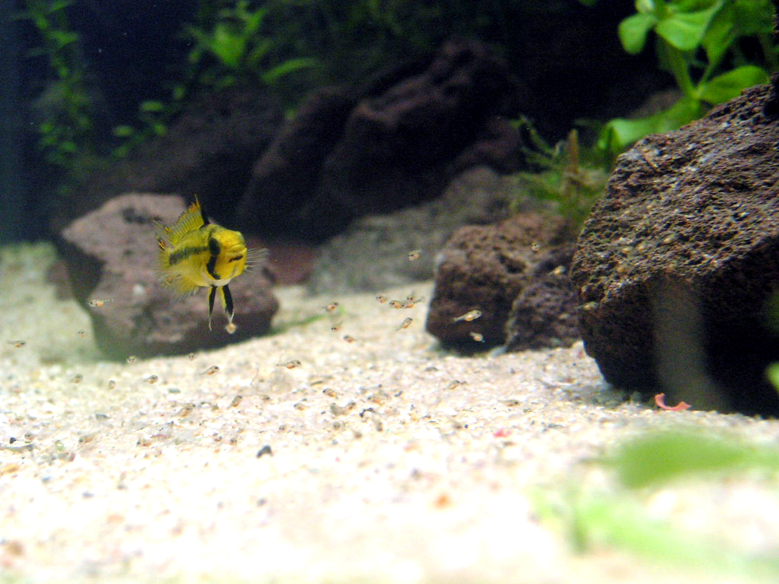 Female cockatoo dwarf cichlid (Apistogramma cacatuoides) with a school of fry.